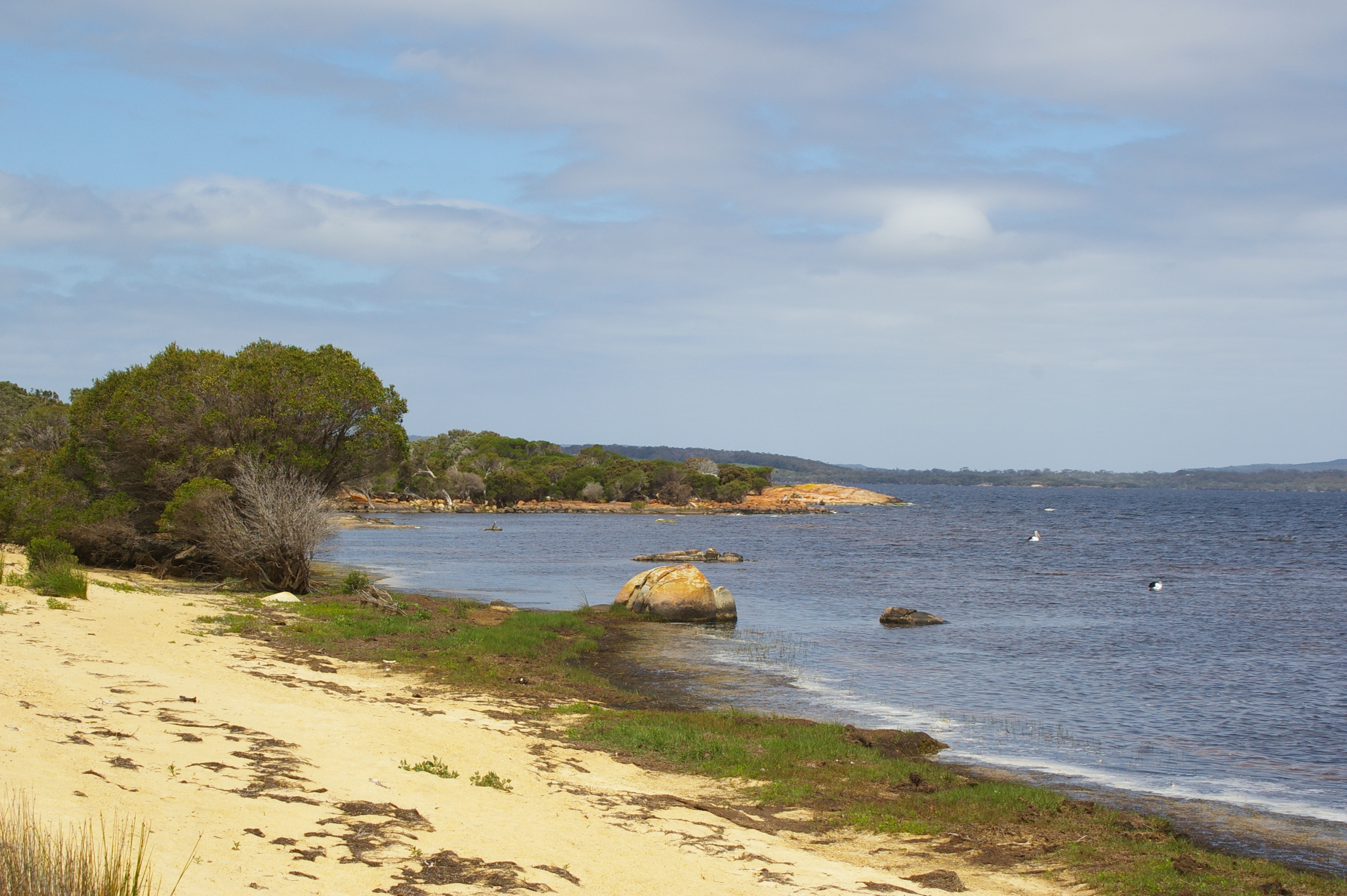 Photo of Wilsons Inlet taken from Crusoe Beach facing East